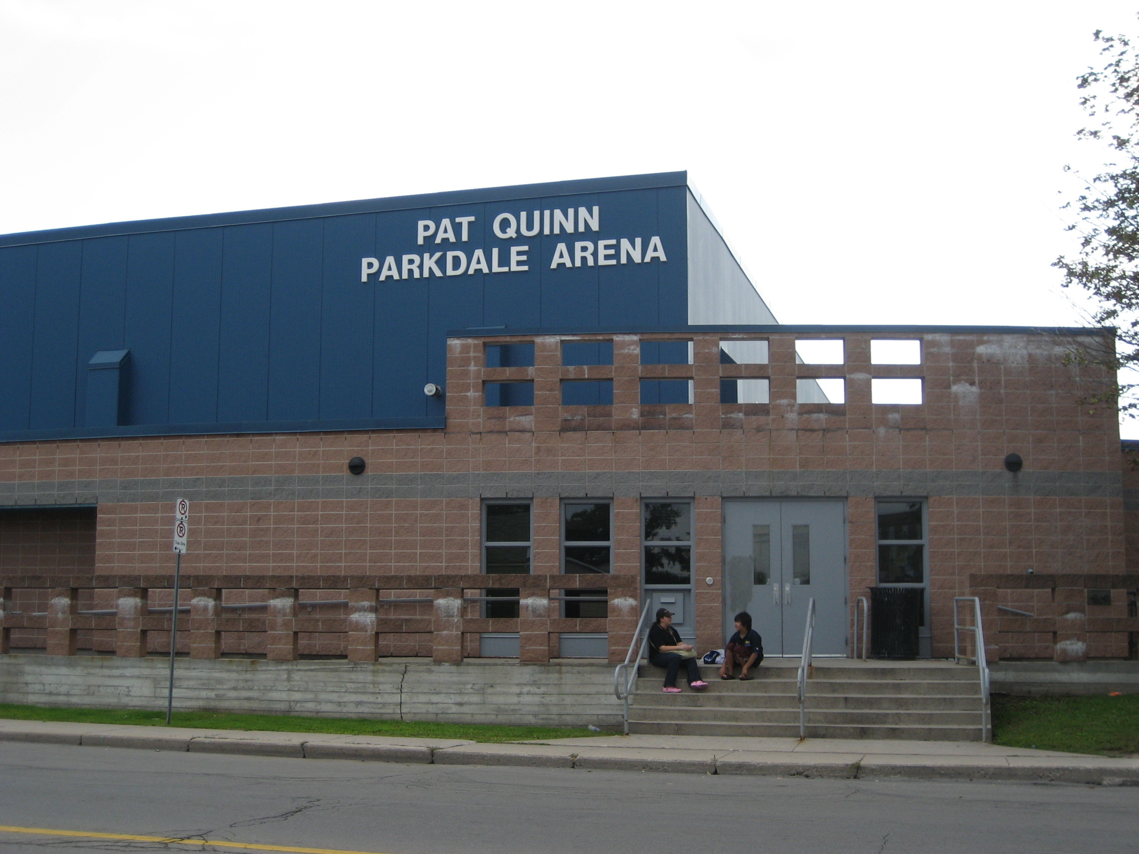 Pat Quinn Parkdale Arena, Parkdale Avenue, Hamilton, Canada.